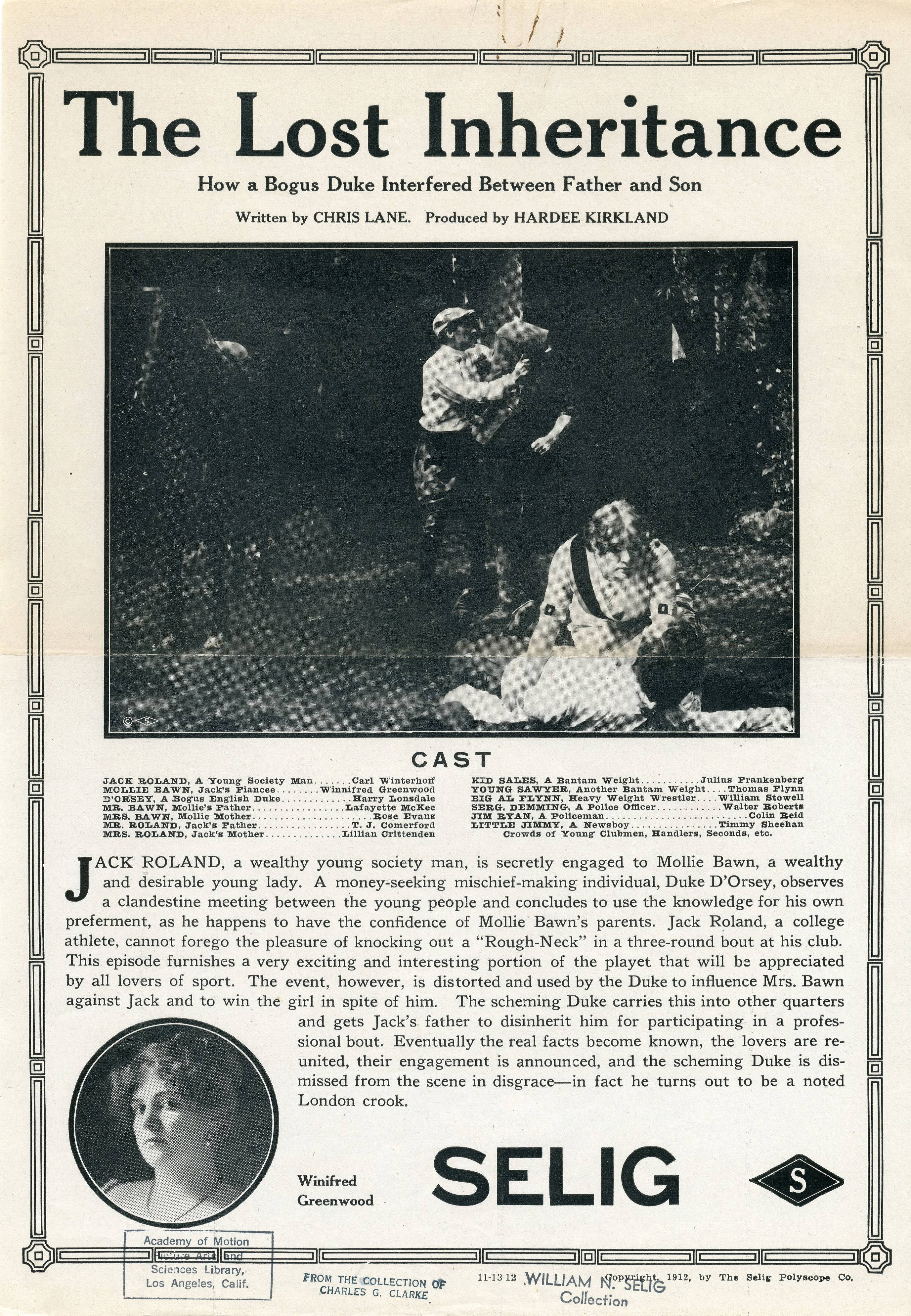 Release flier for THE LOST INHERITANCE, 1912